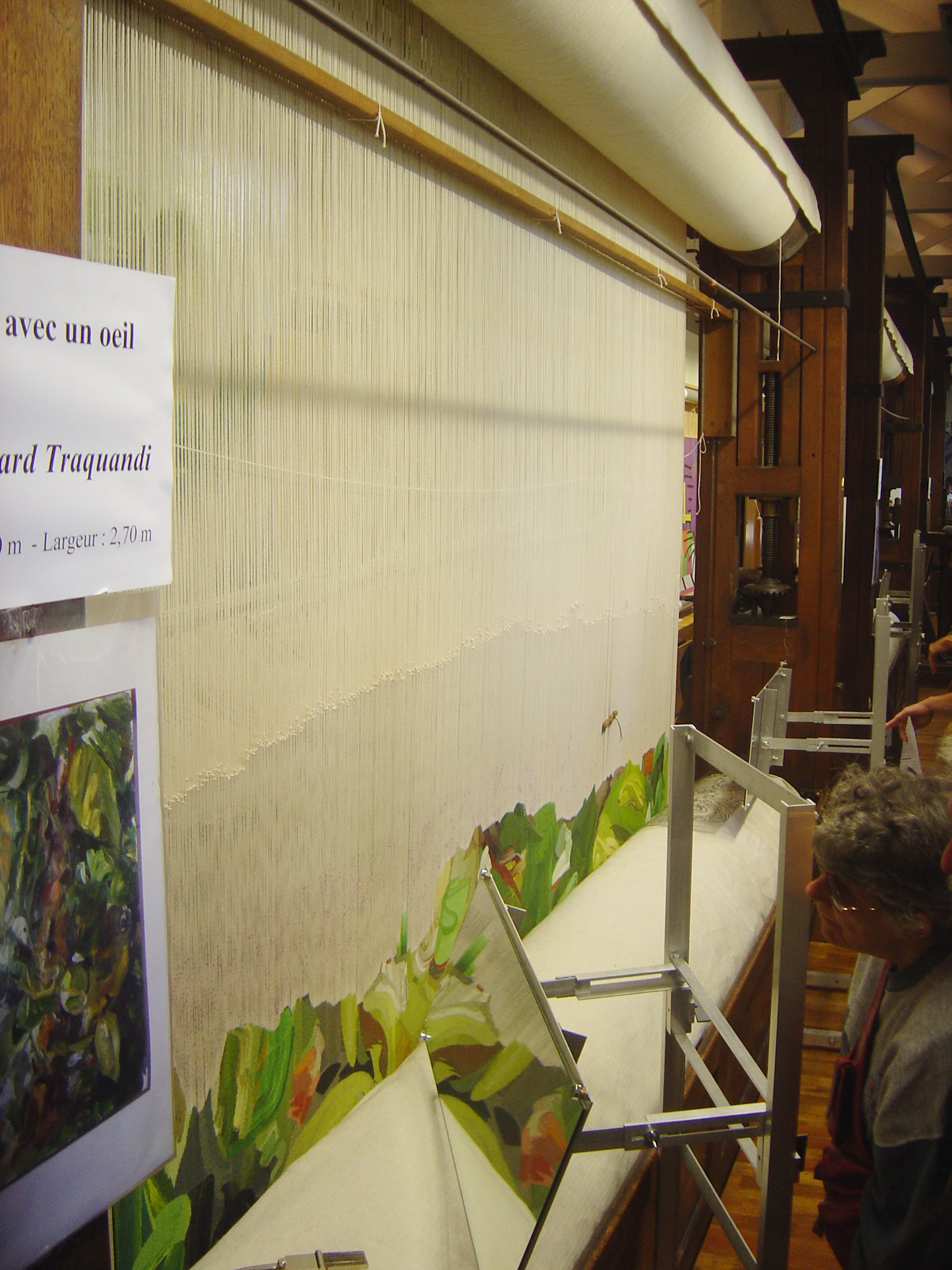 Haute lisse weaving loom at the Gobelin tapestry manufacture